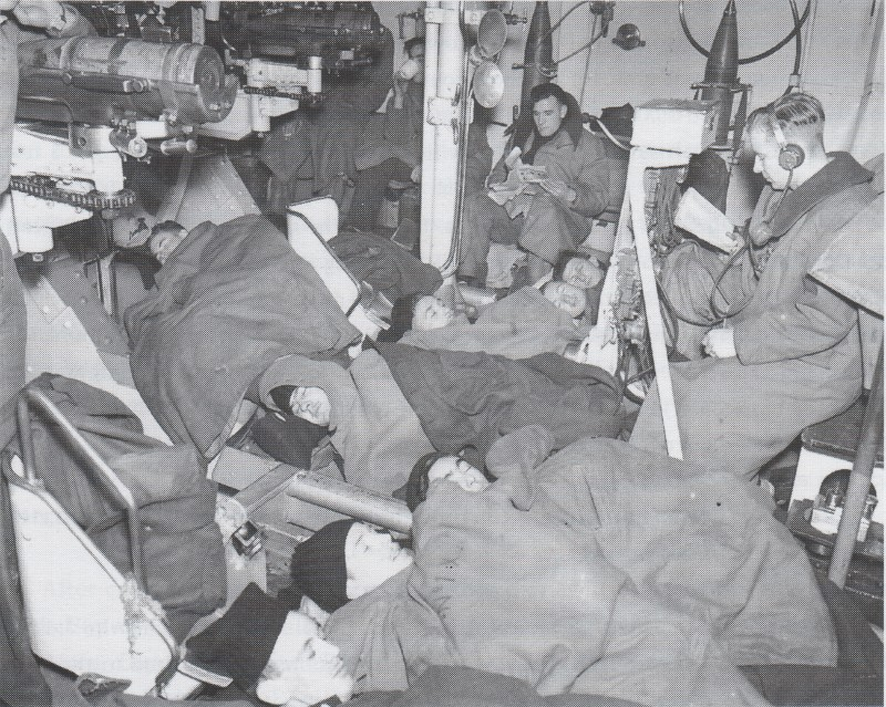 The Royal Marines crew of X turret on HMS Sheffield, stood down while at action stations.